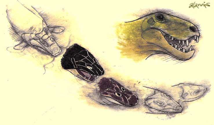 And one day, God said onto the Devonian, "Fish beget Amphibian who will beget Amniote, and so until arise the Synapsid Race."